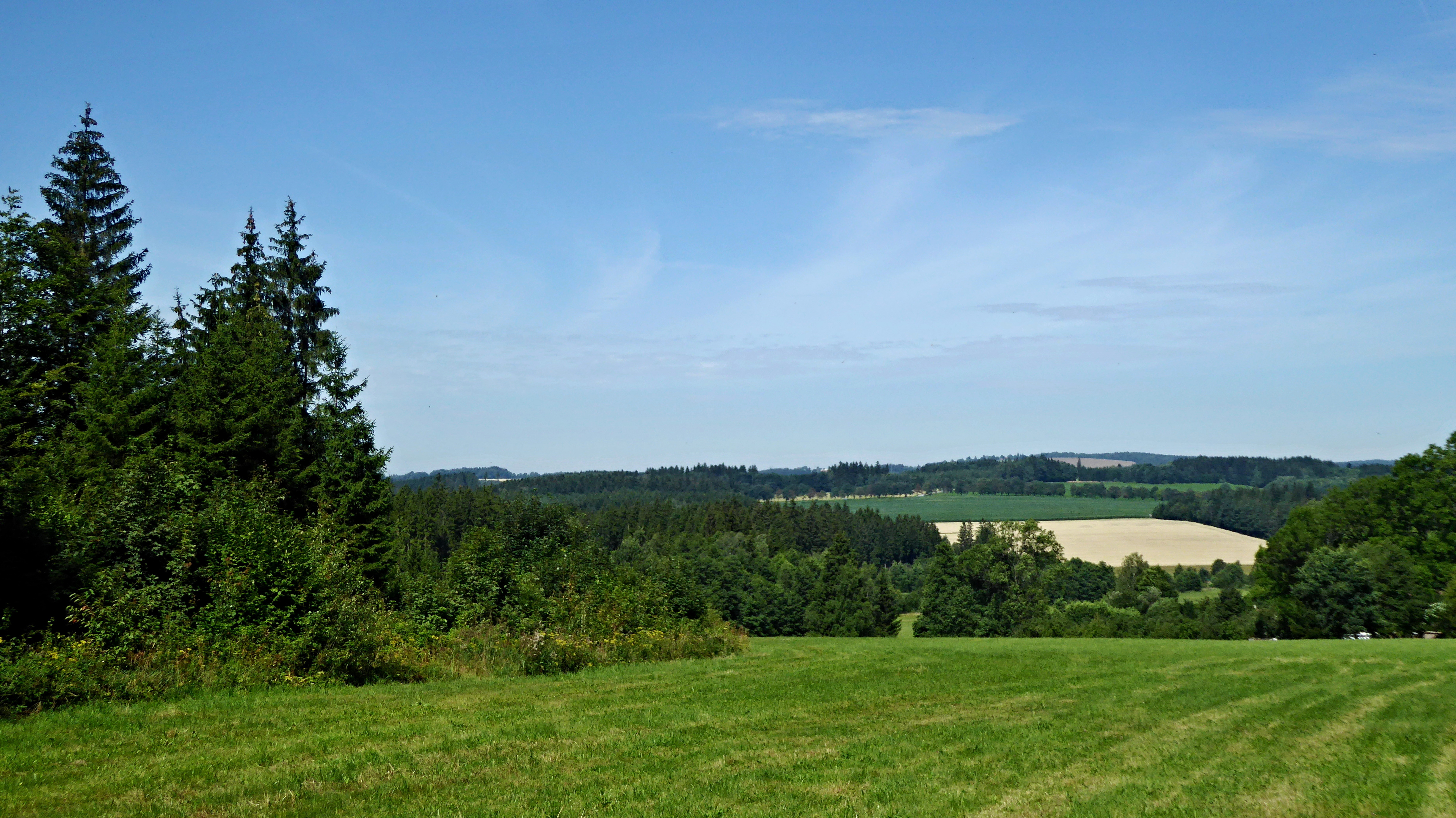 "Stružinecká" knoll hill, landscape over of hamlet "Stružinec" (part municipality Žďírec nad Doubravou). View from the slope of the peak "Barchanec" (624 m) in the Protected Landscape Area "Žďárské" hills, on the right on horizon the top of "Vestec" (668 m, "Kameničská" Highlands) in the Protected Landscape Area Iron Mountains. "Stružinecká" knoll hill is a geomorphological district in the regional divide of the Czech Republic's georelief. Photo location: Czechia, Vysočina Region, hamlet Stružinec, part municipality Žďírec nad Doubravou